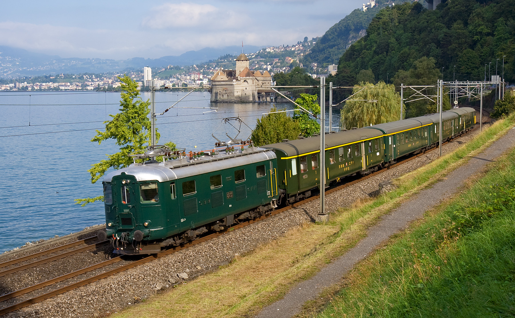 First series Re 4/4 I, now operated by SBB Historic, passing the Chillon castle at Lake Geneva with a historic train consisting of light steel coaches and one standard coach type I (EW I).